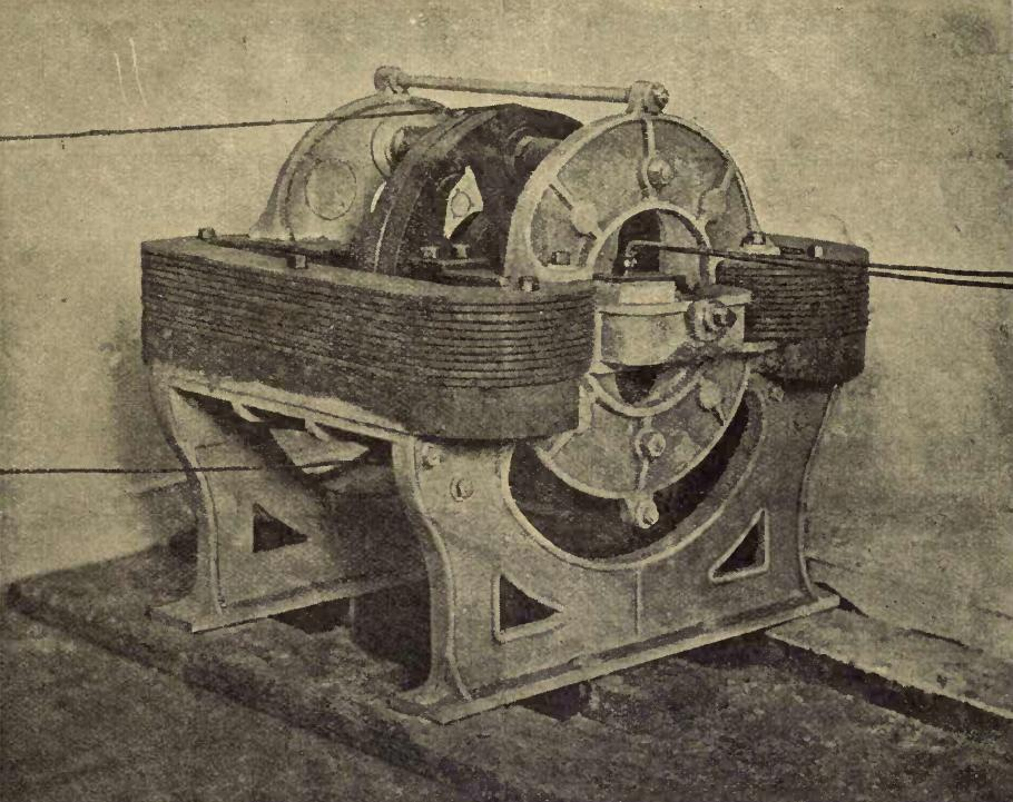 Second Dynamo built by Søren Hjorth (1855)